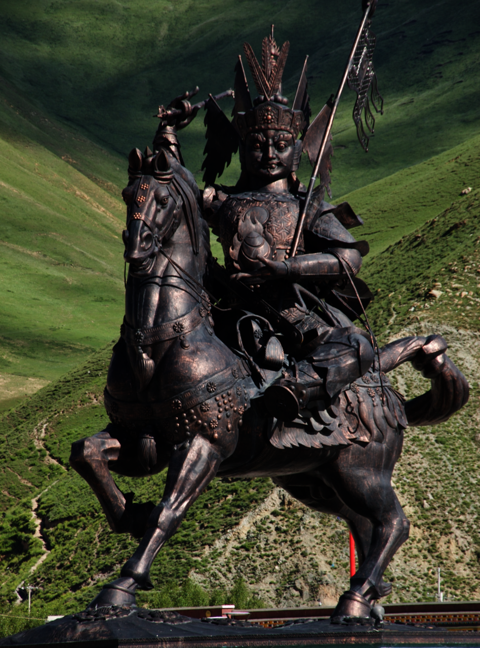 Monument of legendary tibetan hero Gesar of Ling in Yushu Ciity, Qhinghai, 2009